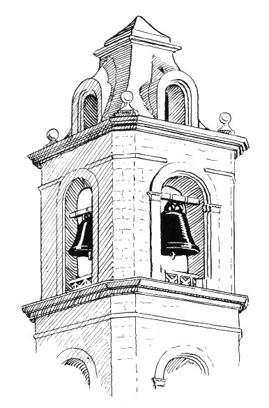 Line art drawing of a belfry.